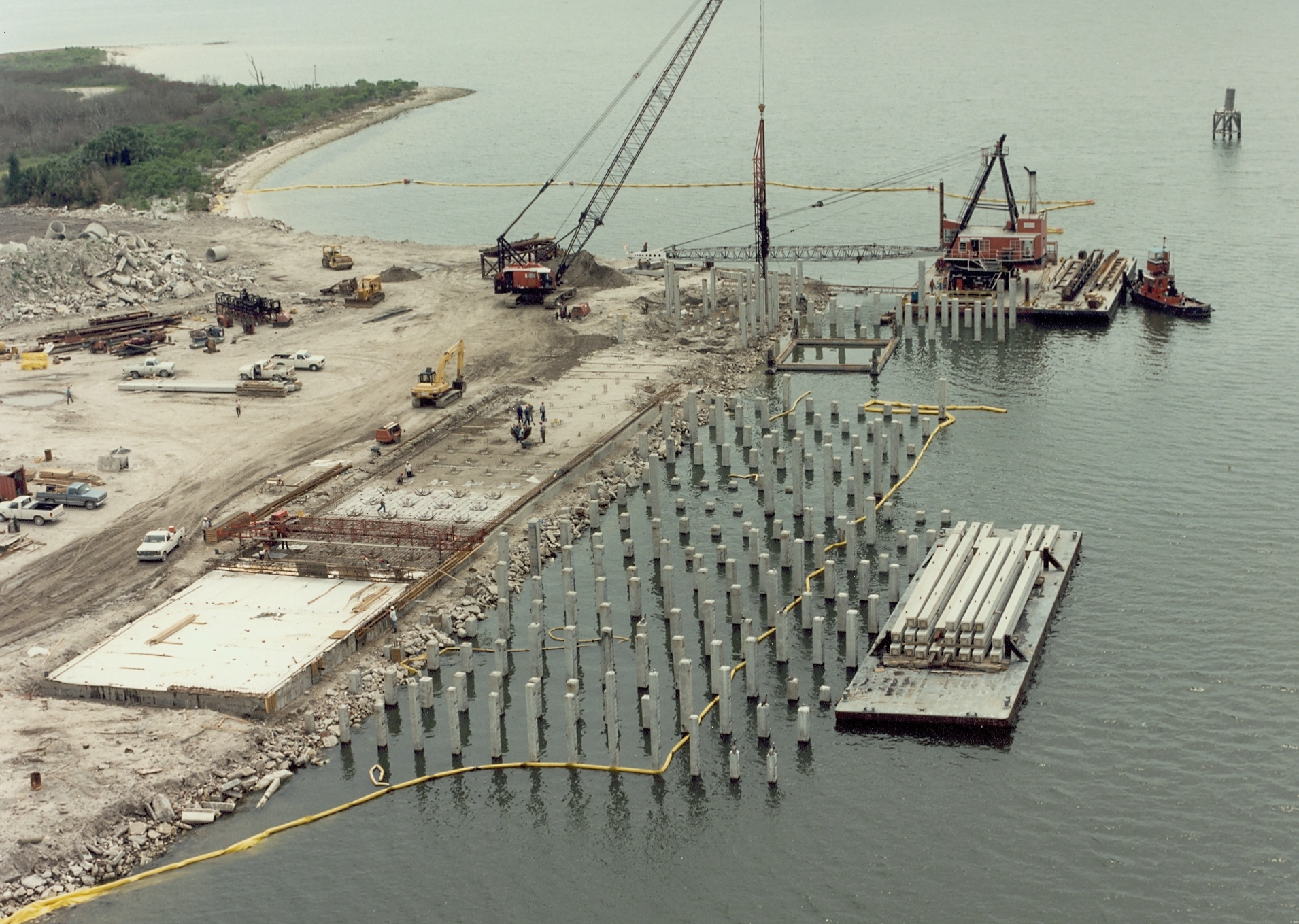 Prestressed concrete pile driving operations (Pile driving operations in the Port of Tampa, Florida, United States)